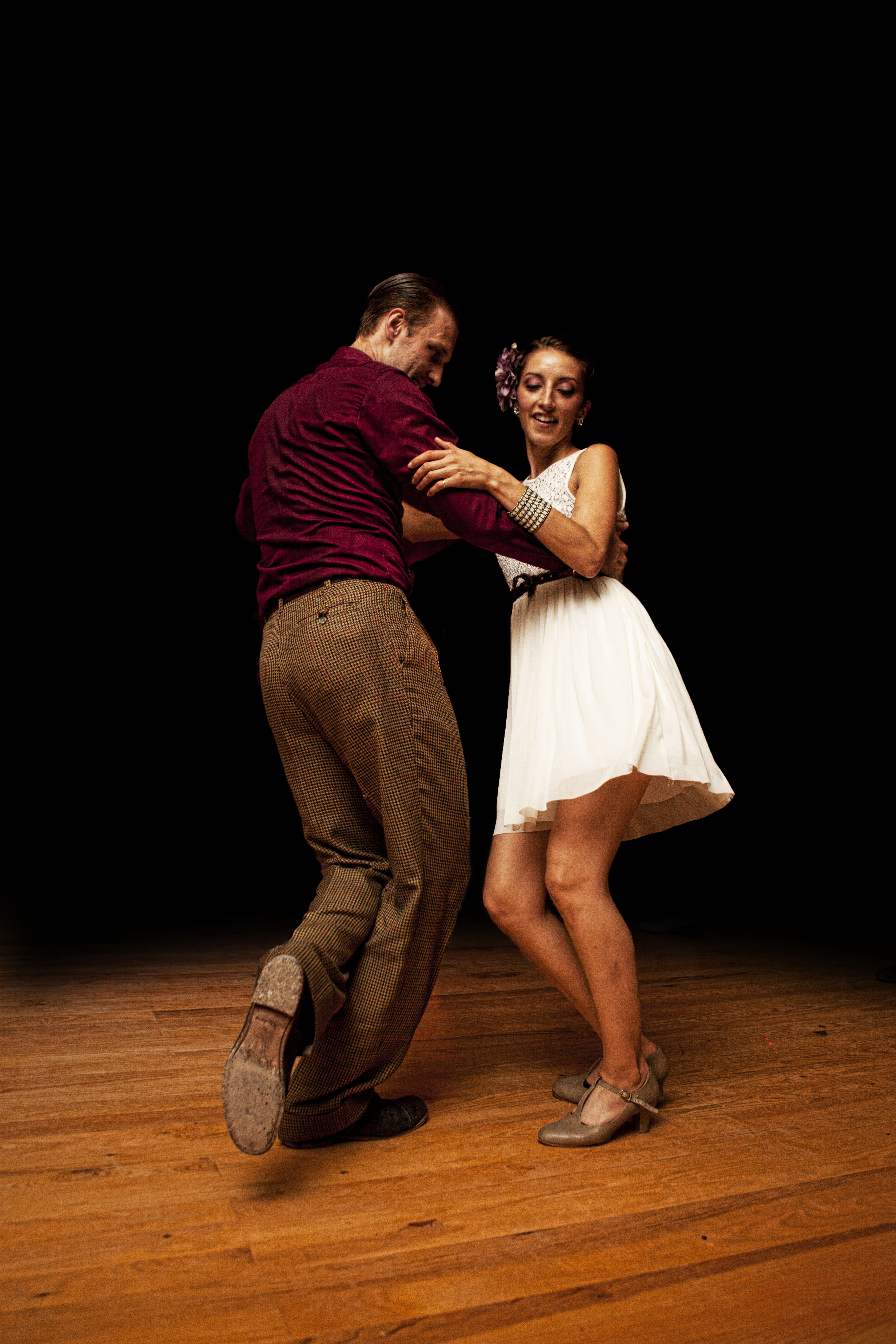 Sarah Breck and Dax Hock social dancing at the Summercamp in Eauze, France in august 2011